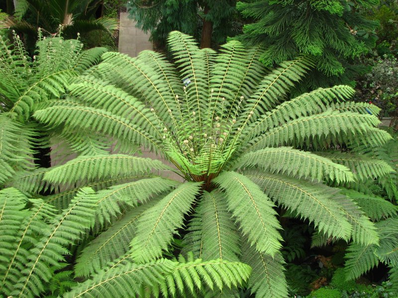 Dicksonia antarctica Labill. (Soft Tree Fern). Taken at Palm House, Kew Gardens, (London, UK)